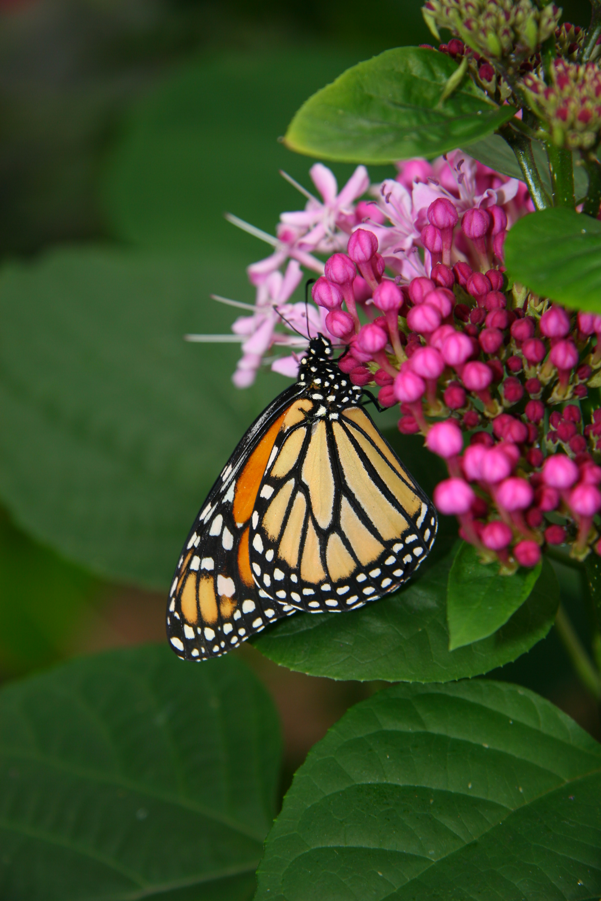 Danaus plexippus butterfly in the Jardin des Papillons, Grevenmacher, Luxembourg